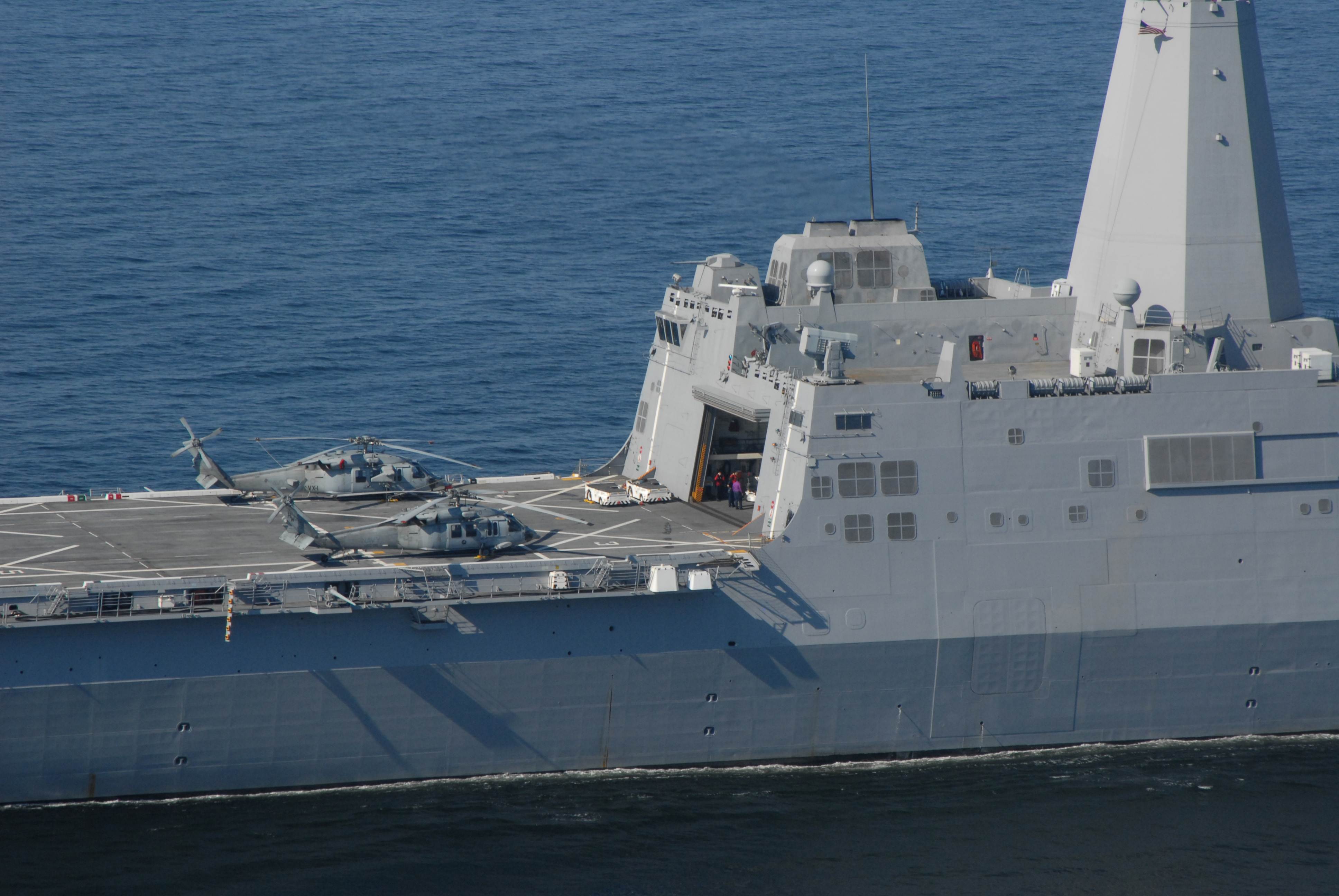 The USS Mesa Verde, a San Antonio-class amphibious transport dock vessel out of Norfolk, Va. transports U.S. The USS Mesa Verde, a San Antonio-class amphibious transport dock vessel out of Norfolk, Va., transports U.S. Marines, Sailors and foreign troops from various countries participating in Exercise Partnership of the Americas (POA) 2009 off the coast of Naval Station Mayport, Fl. The Marines of Special Purpose Marine Air Ground Task Force 24 (SPMAGTF-24) are participating in POA jointly with UNITAS Gold, the oldest joint naval exercise in the Department of Defense. The Operational Fleet is comprised of more than 25 vessels, 50 rotary and fixed wing aircraft, 650 U.S. Marines, 6,500 U.S. Sailors and four submarines supported by cooperating countries to include troops from Canada, Brazil, Germany, Chile, Colombia, Mexico, Peru, and Uruguay. (USMC photo by Sgt. Jonathan T. Spencer)